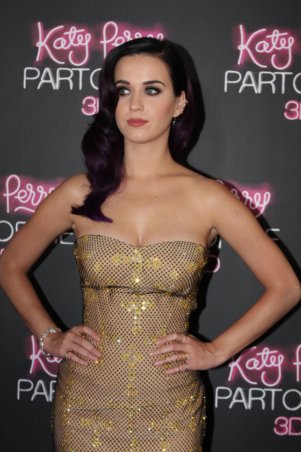 Katy Perry 'Part Of Me' movie premiere in Sydney, Australia